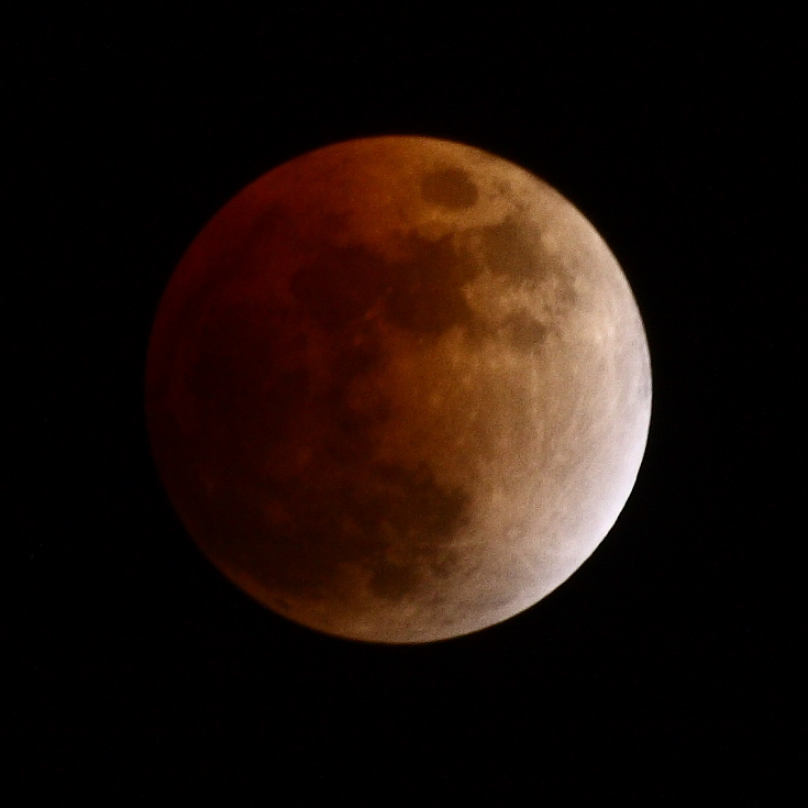 Total lunar eclipse at 3:18 UTC, viewed from West Hartford, Connecticut